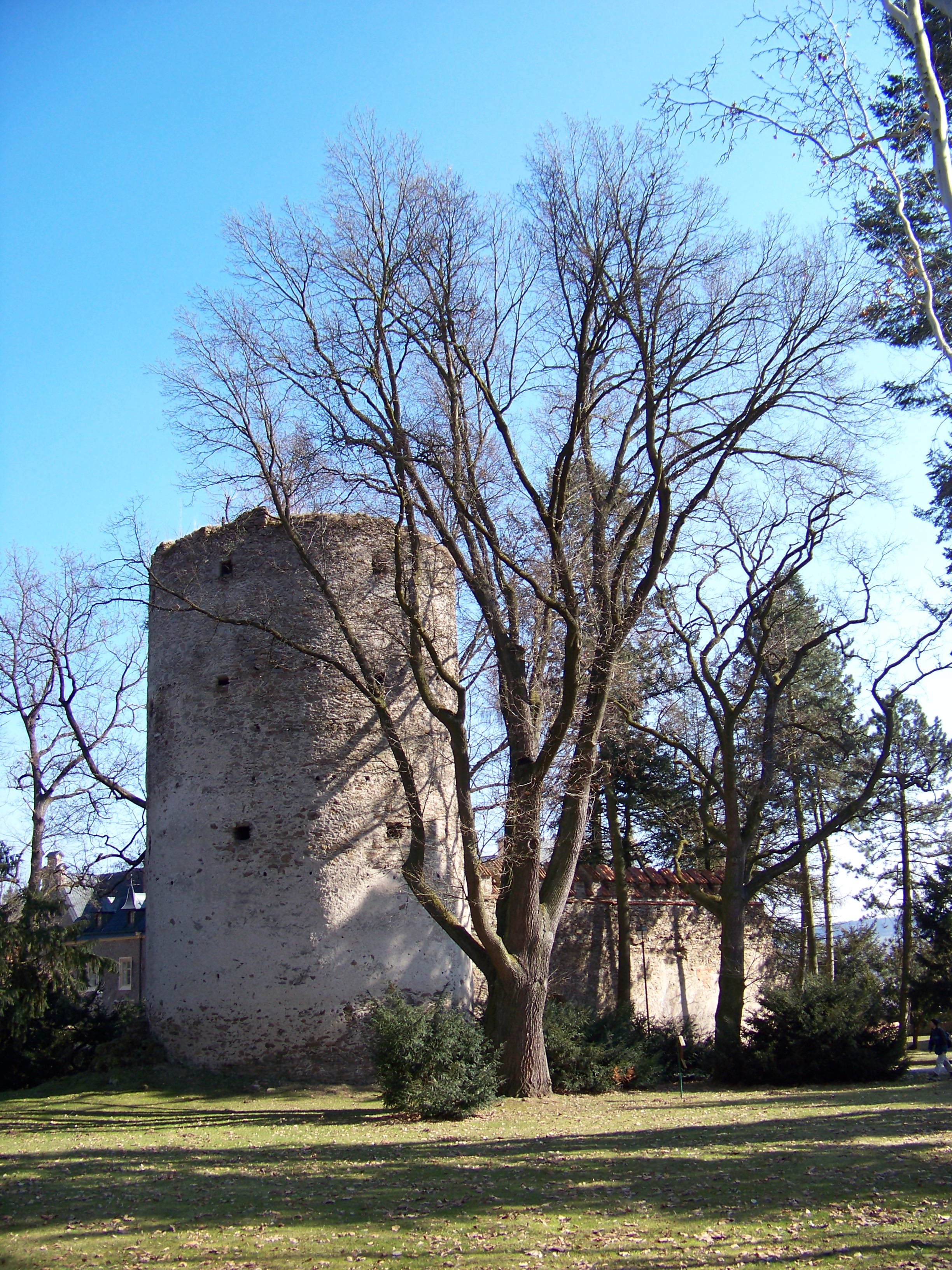 Zruč nad Sázavou, Kutná Hora District, Central Bohemian Region, the Czech Republic. Kolowrat Oak at the Kolowrat tower.